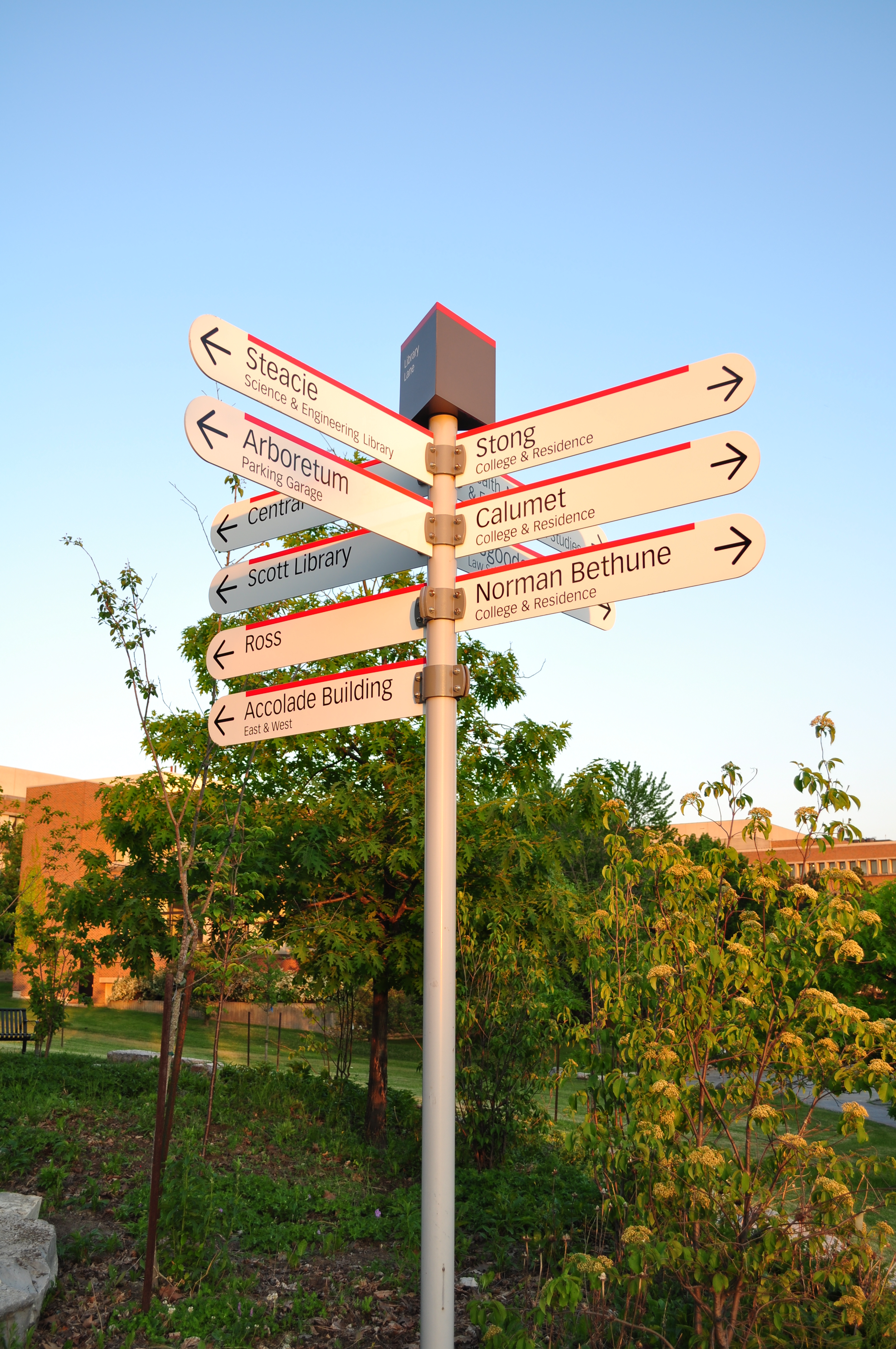 Library Lane, Keele Campus, York University